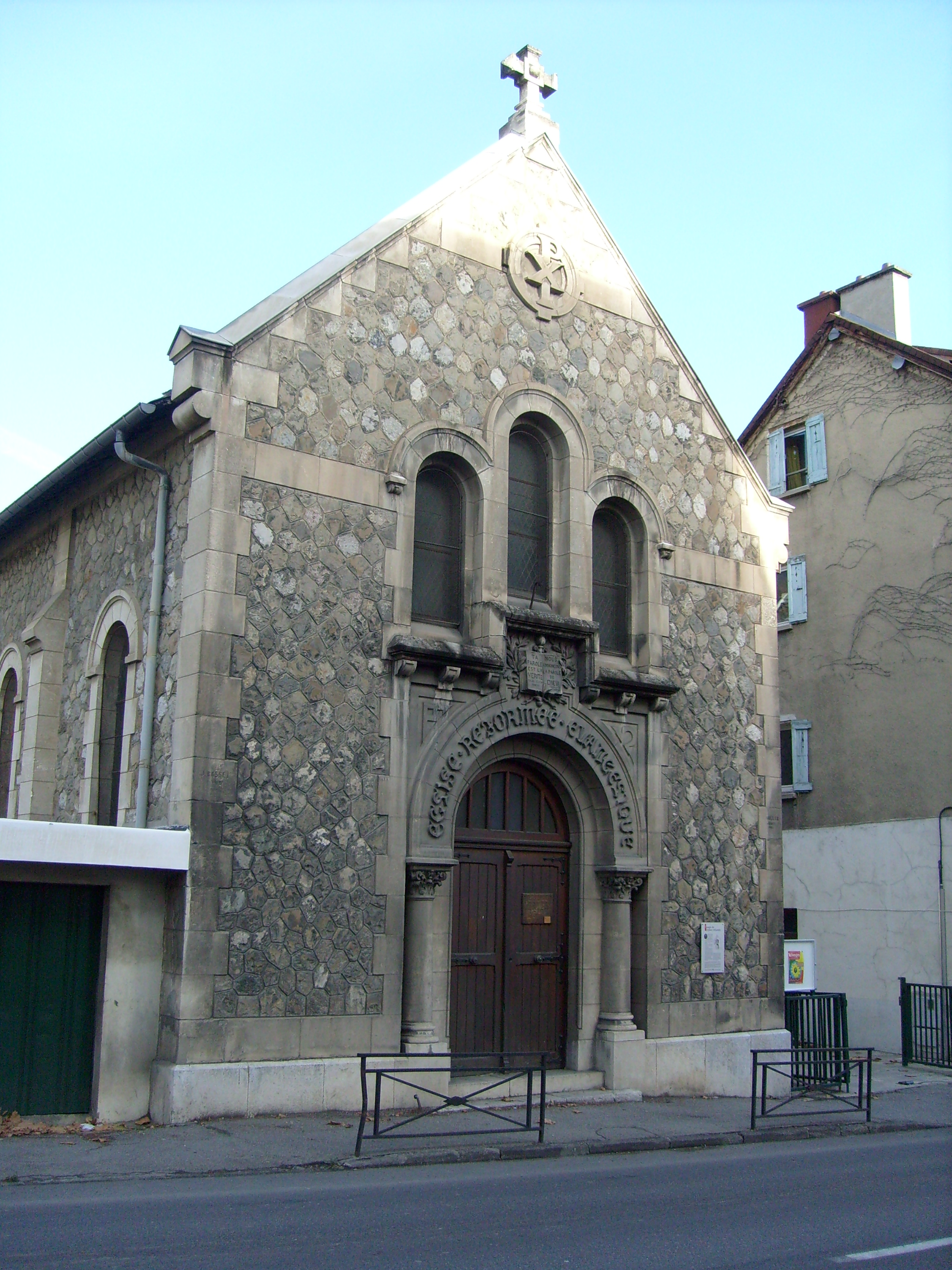 Protestant church, Guillaume Farel avenue( Gap, Hautes-Alpes, France)